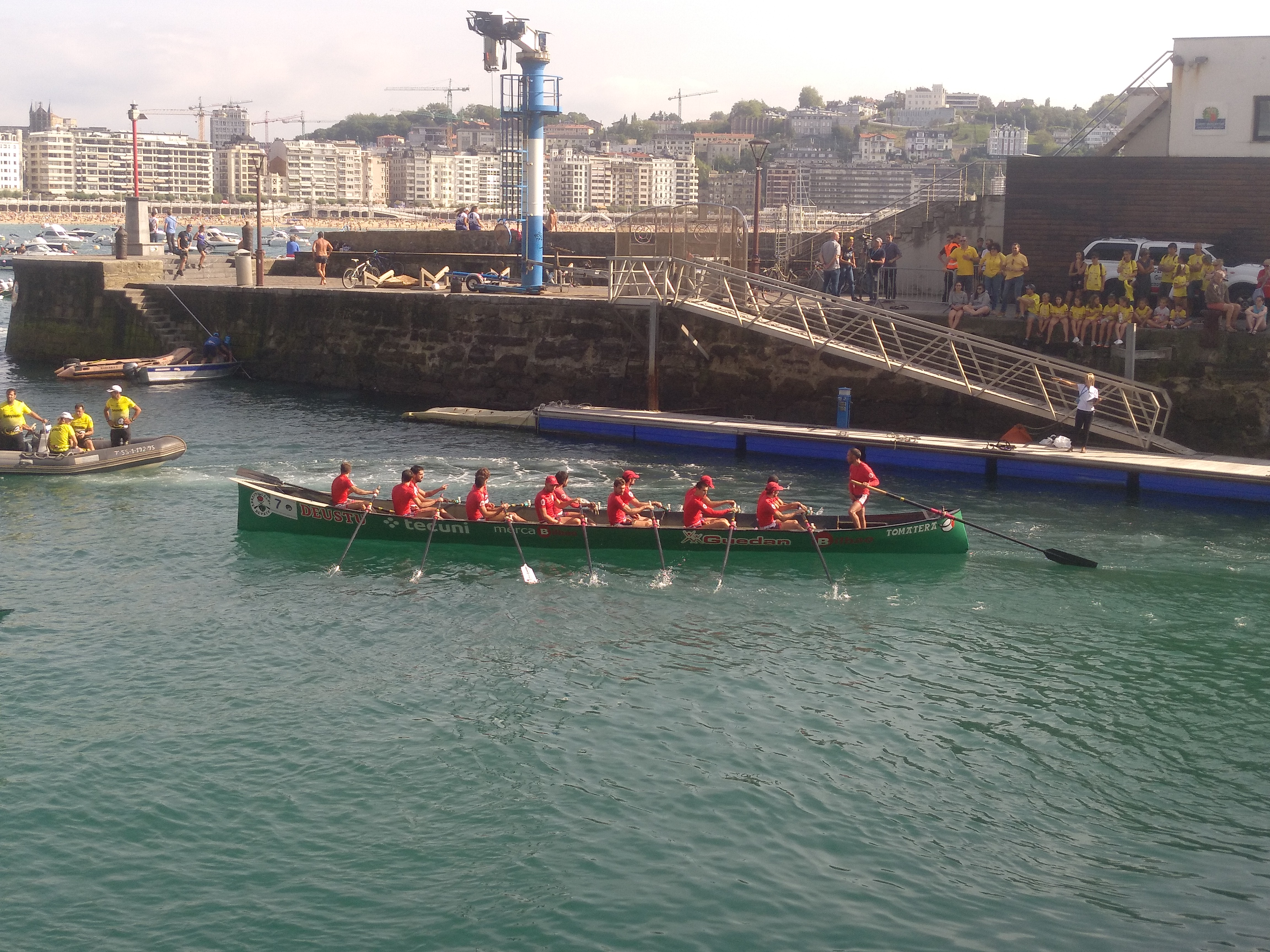 Deustu AT, Flag of La Concha, 2018